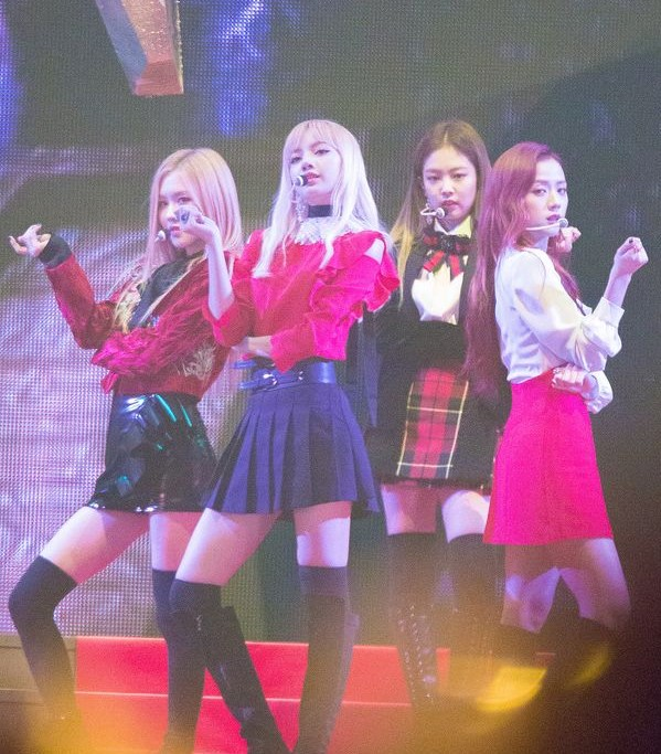 Black Pink on Melon Music Awards 2016